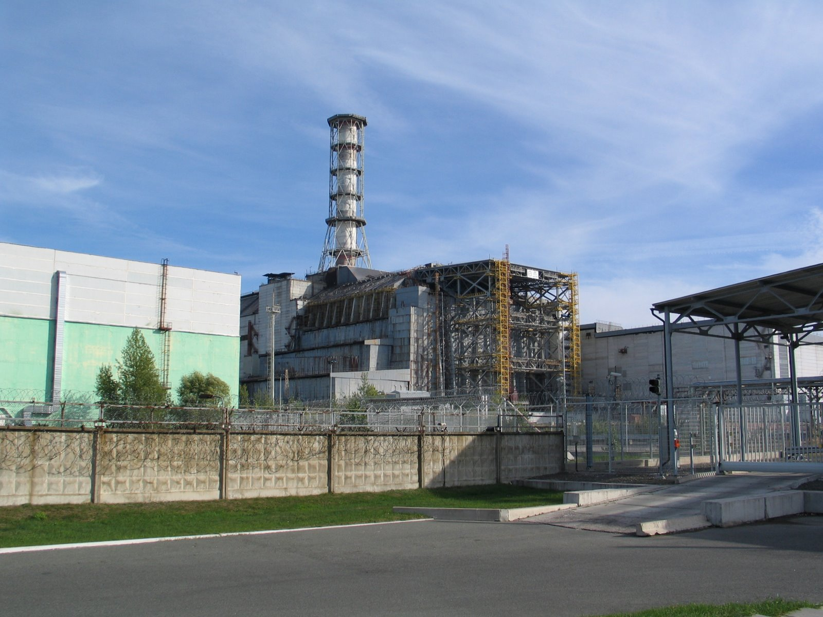 The fourth reactor bloc of the Chernobyl Nuclear Power Plant in Ukraine.